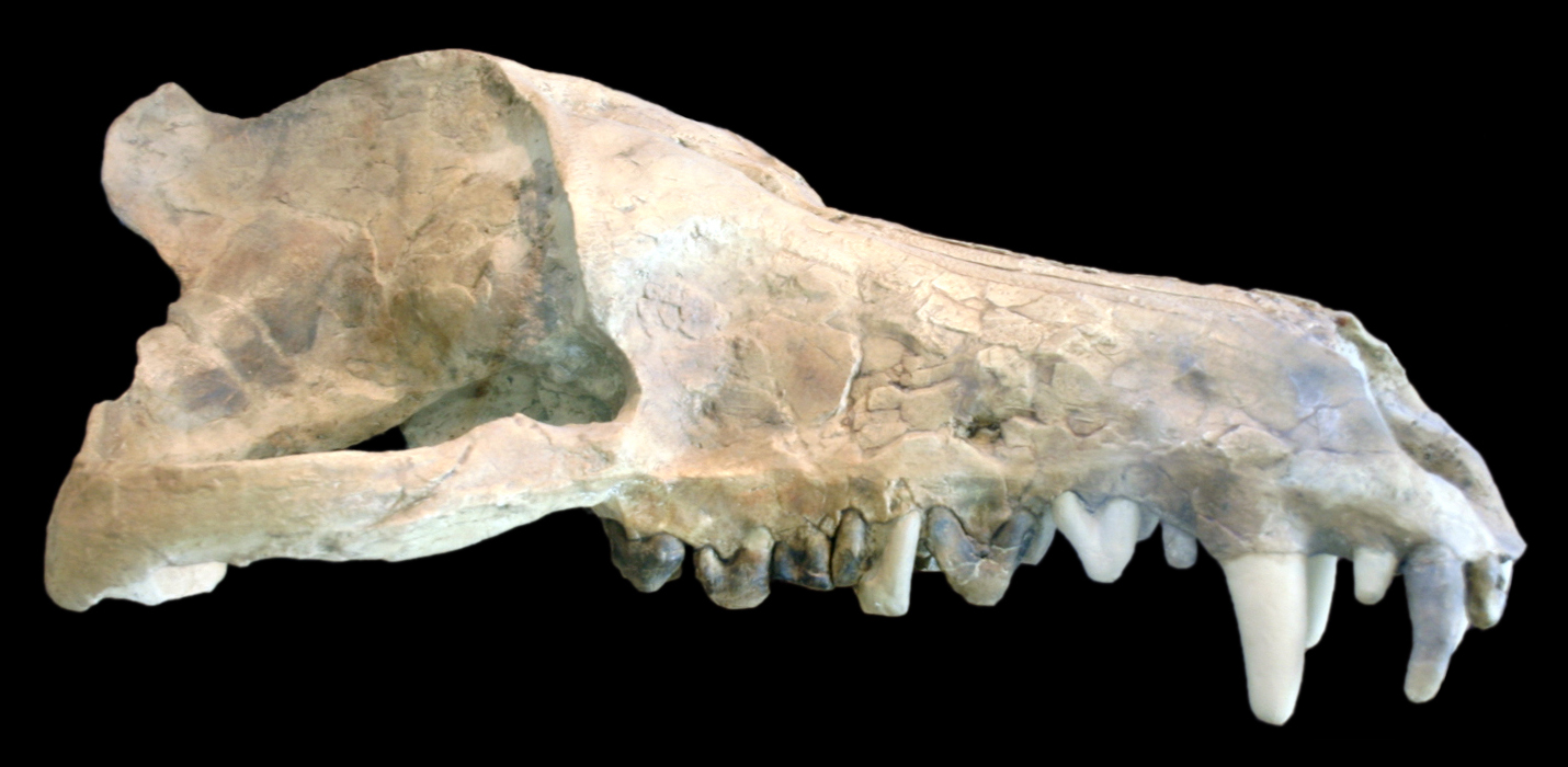 Andrewsarchus mongoliensis holotype (named for Roy Chapman Andrews), AMNH